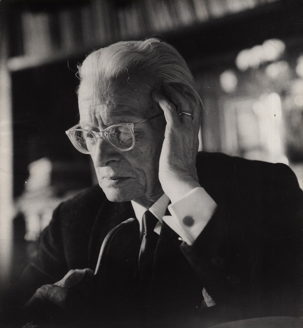 Portrait of Ildebrando Pizzetti, composer (1880-1968). Photo by unknown, before 1968.